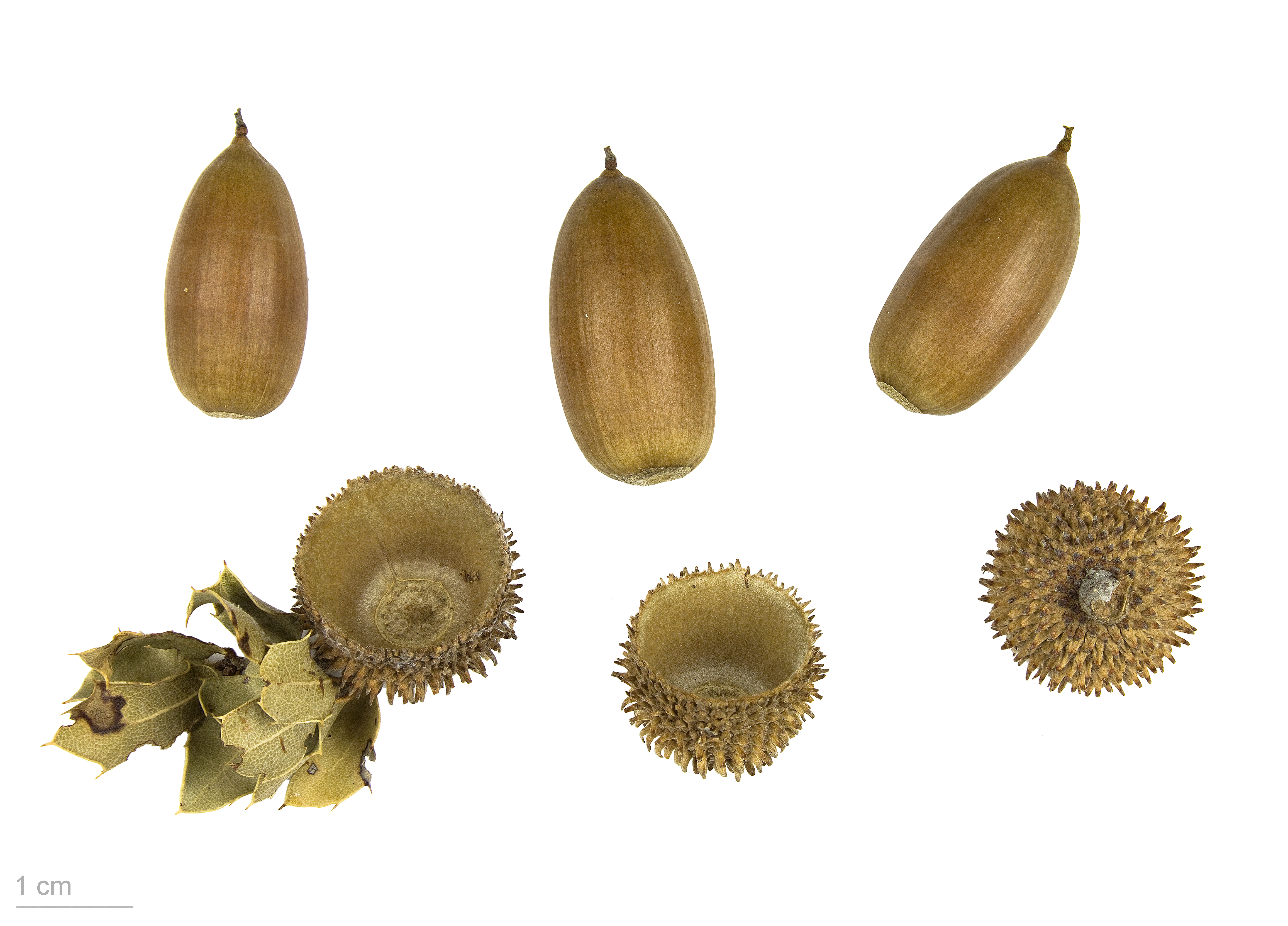 kermes oak , fruits and seeds